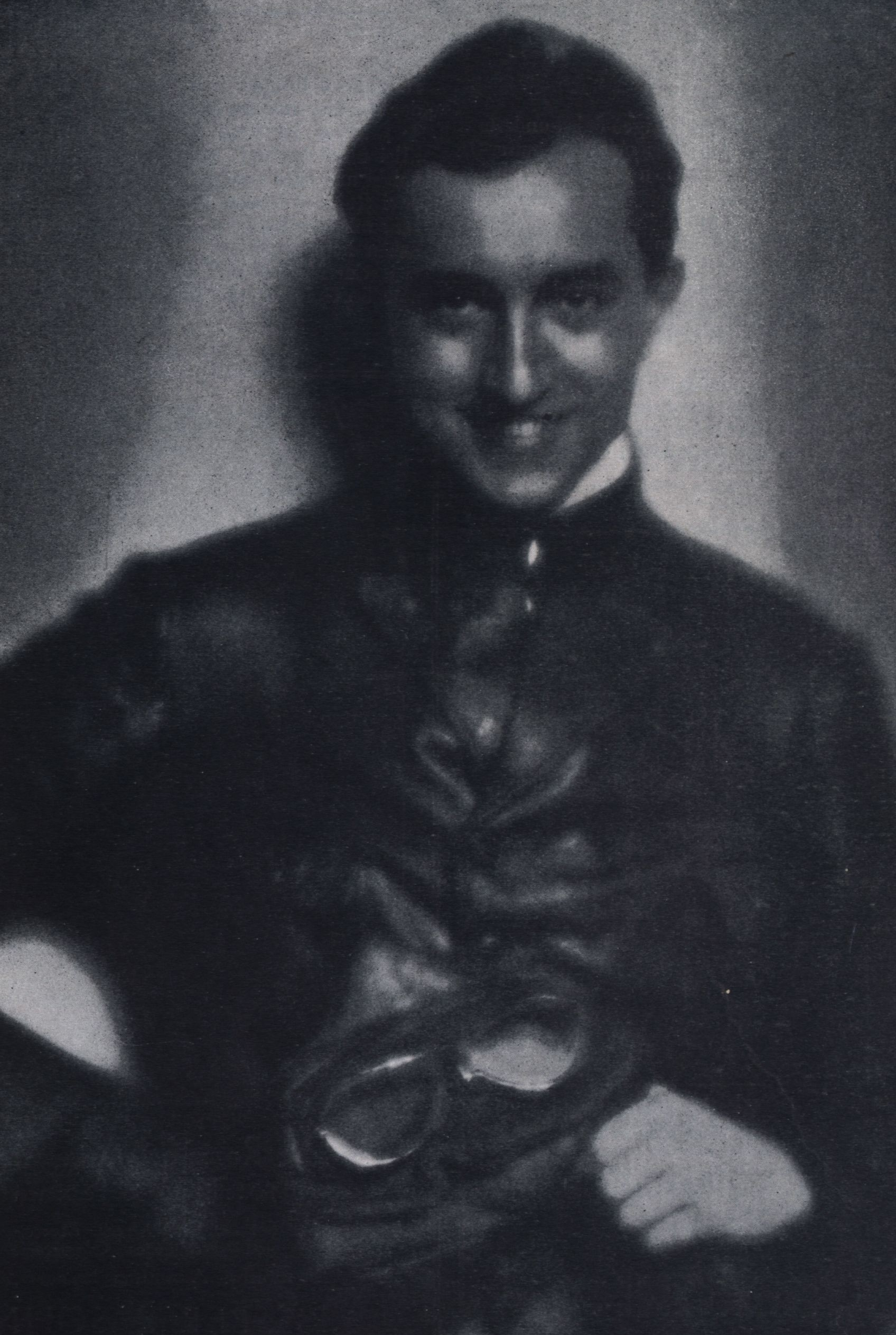 Lothar Rübelt (1901–1990), Austrian photographer.